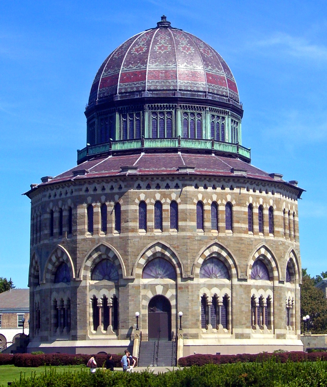 Nott Memorial Hall, on campus of Union College, Schenectady, New York, United States